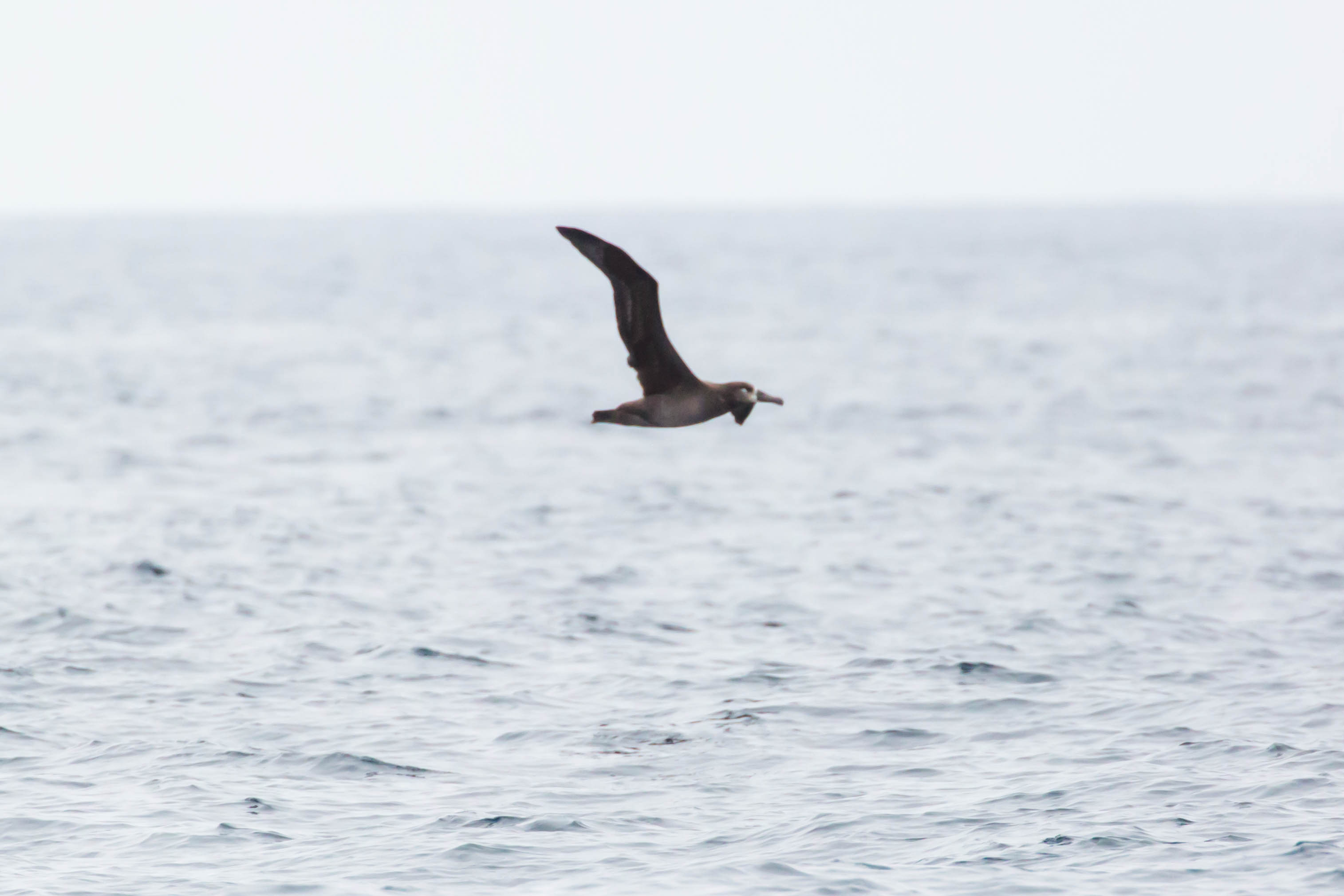 Black-footed albatross